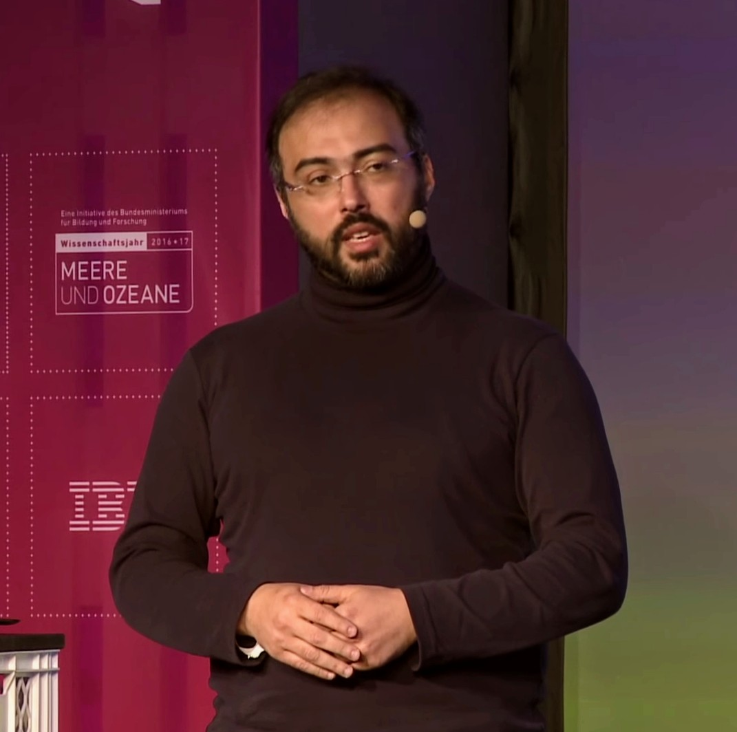 The human story behind the last big scoop in tech news: Ahmed Mansoor Find out more at: You all might have heard about the Case of Ahmed Mansoor, or rather: his IPhone, on which Security Researchers discovered a very unusual spyware. Since then, Ahmed Mansoors life was impacted in many different - negative- ways. Iyad El-Baghdadi Creative Commons Attribution-ShareAlike 3.0 Germany (CC BY-SA 3.0 DE)